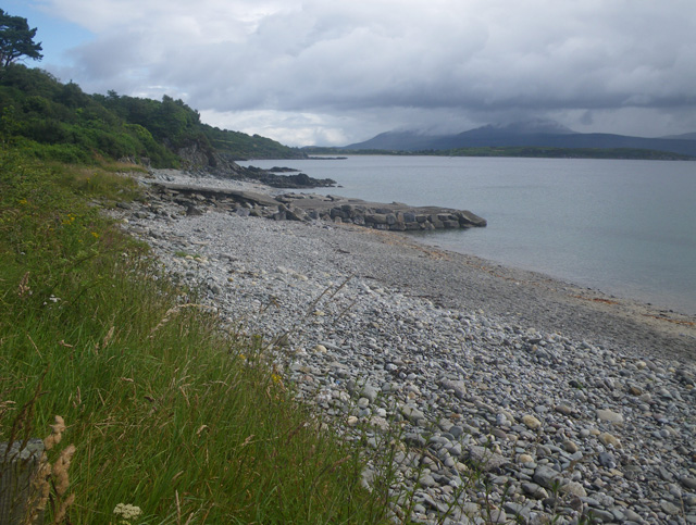 Shingle beach at Torrisdale Bay, near to Bridgend, Argyll And Bute, Great Britain. The bay waters are very placid this windless afternoon.